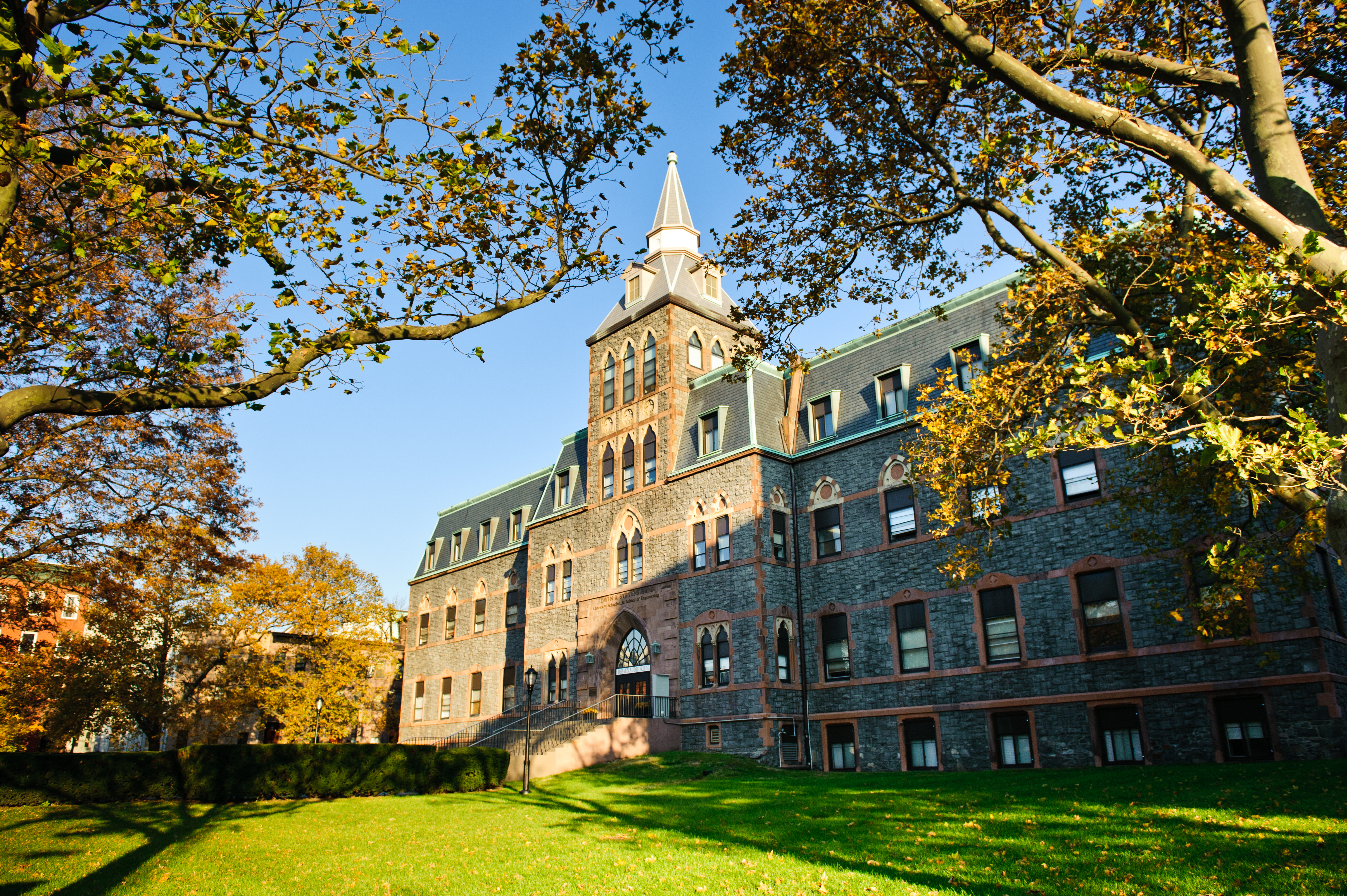 The historic Edwin A. Stevens Hall on the campus of Stevens Institute of Technology in Hoboken, New Jersey